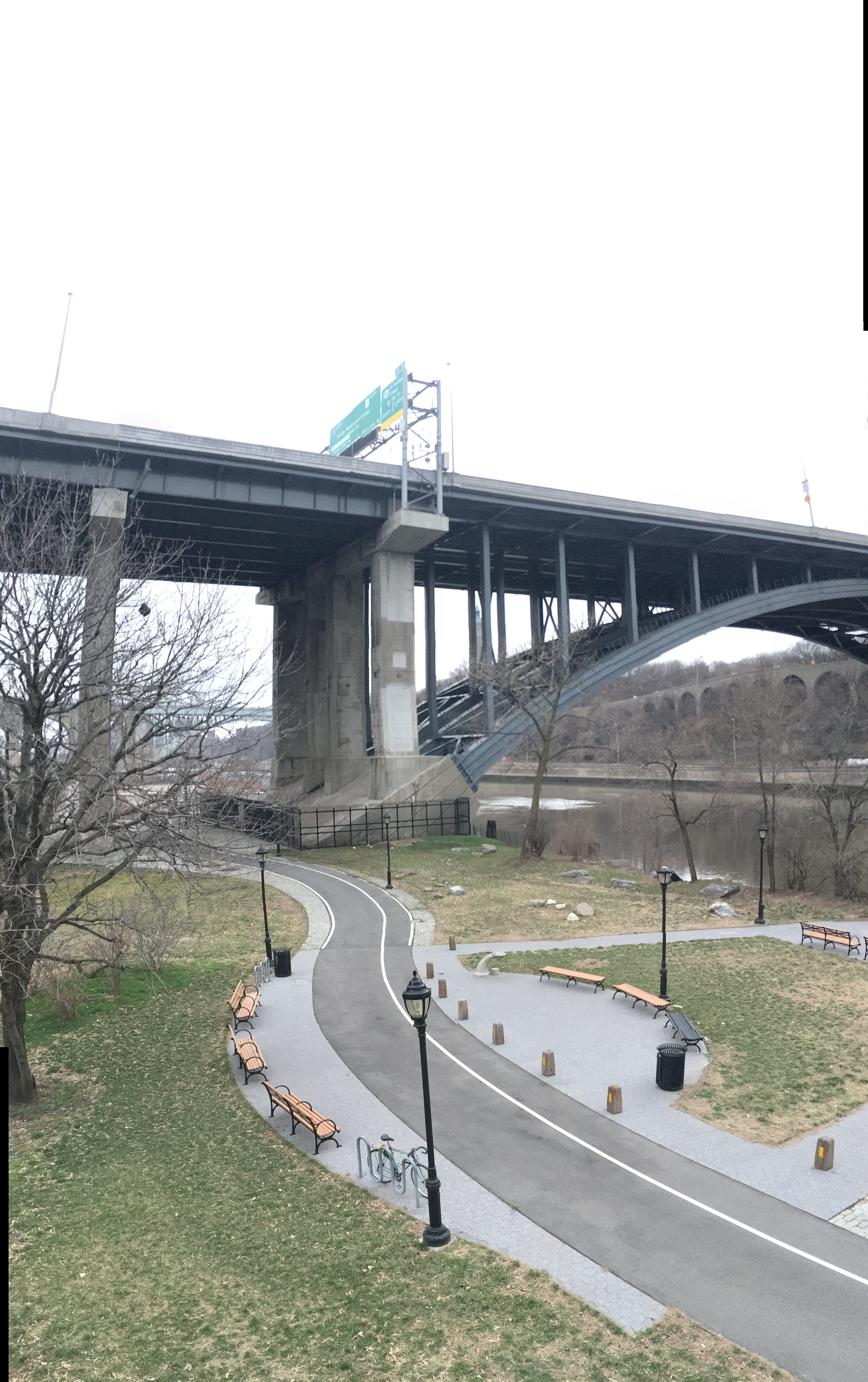 Southern portion of Bridge Park looking toward the Alexander Hamilton Bridge in the Highbridge section of the Bronx.